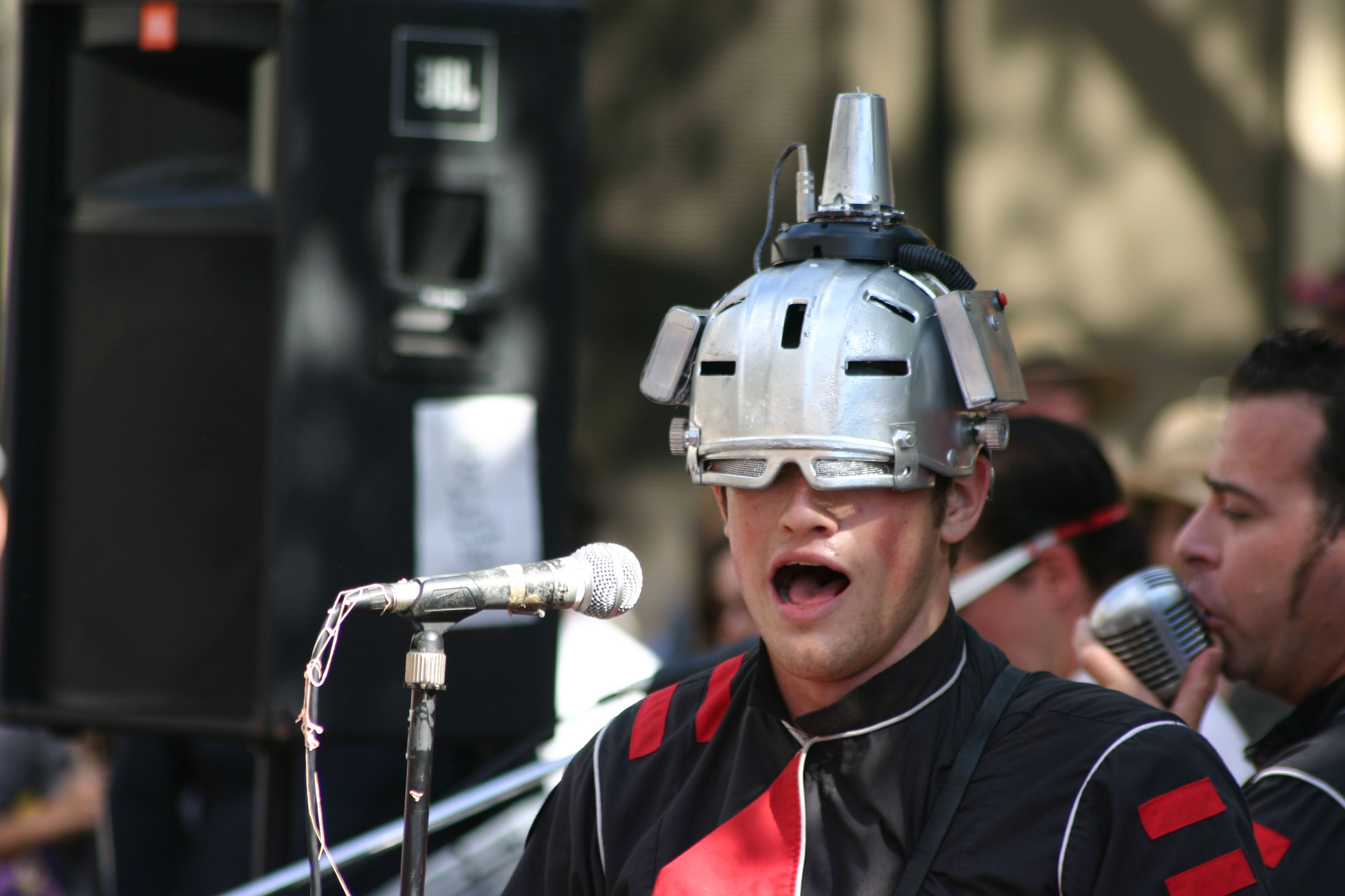 Band member Corporal Joebot of The Phenomenauts sports the "Therimatic Helmerator" (a helmet with a wireless theremin attached). Oakland, California, United States. Photo by Kai Schreiber.